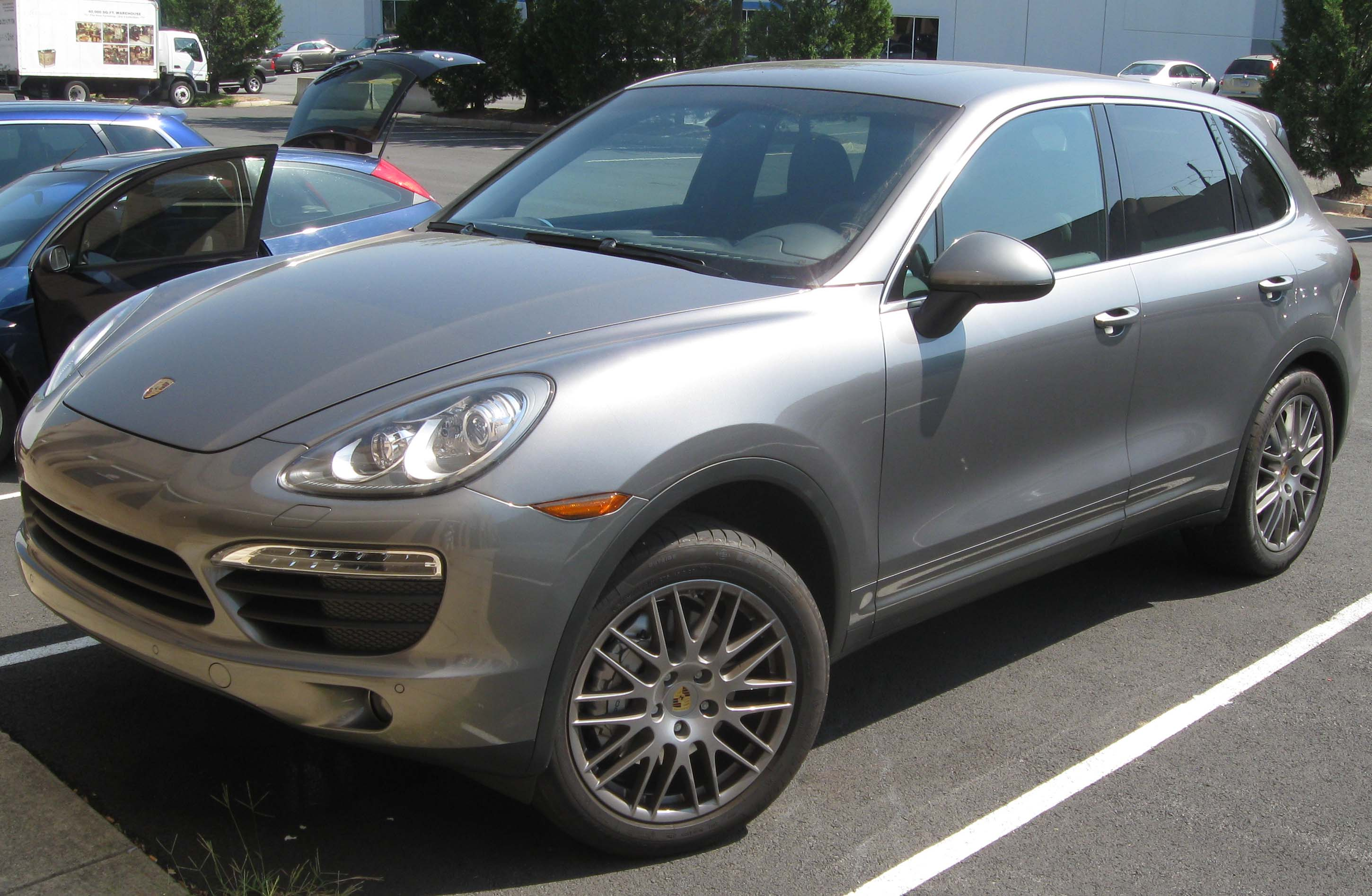 2011 Porsche Cayenne photographed in Chantilly, Virginia, USA.